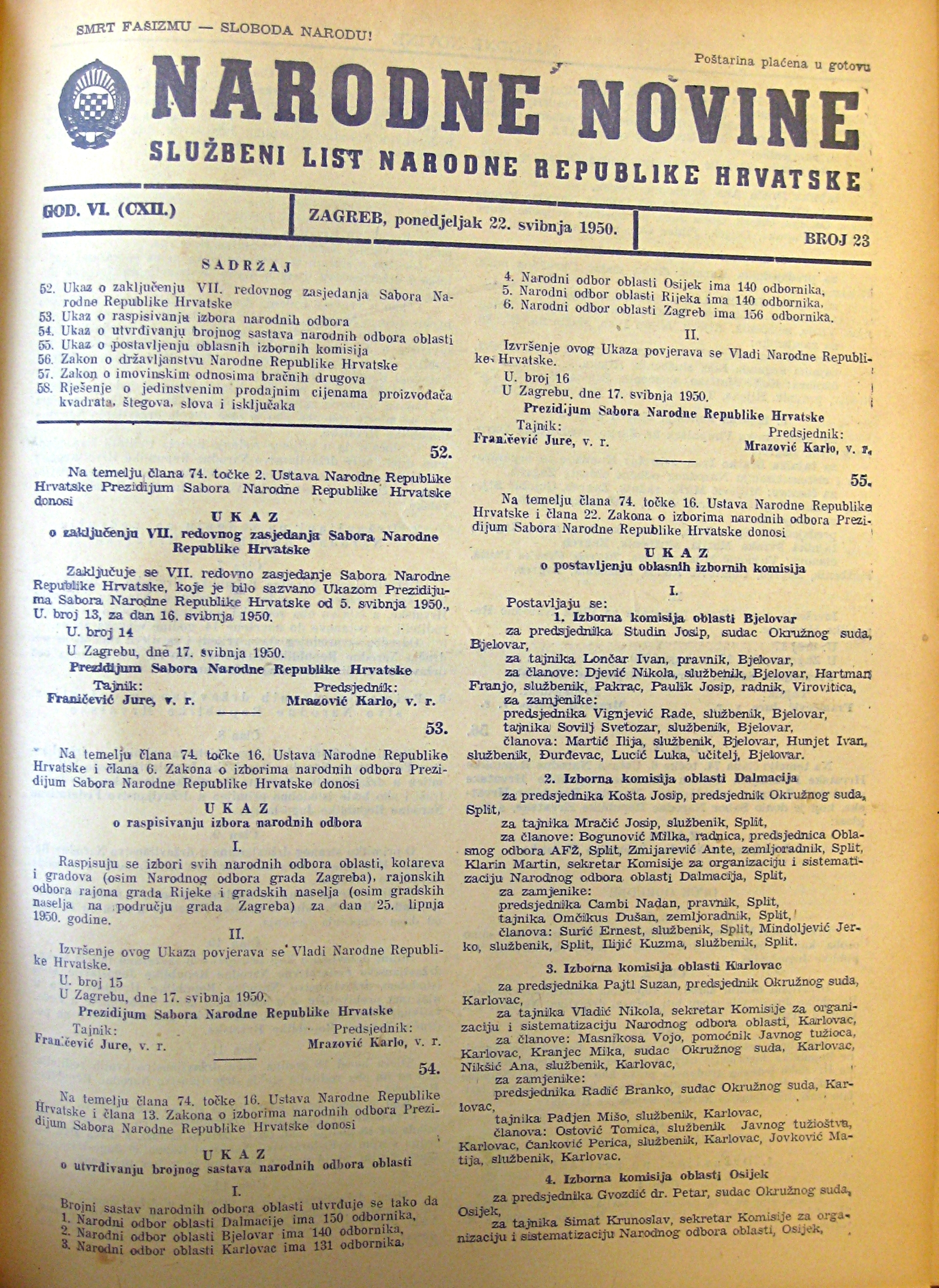 Official Gazette of the People's Republic of Croatia Nr. 23 dated 22/5/1950Hrvatski: "Narodne novine" broj 23 od 22. svibnja 1950. godine